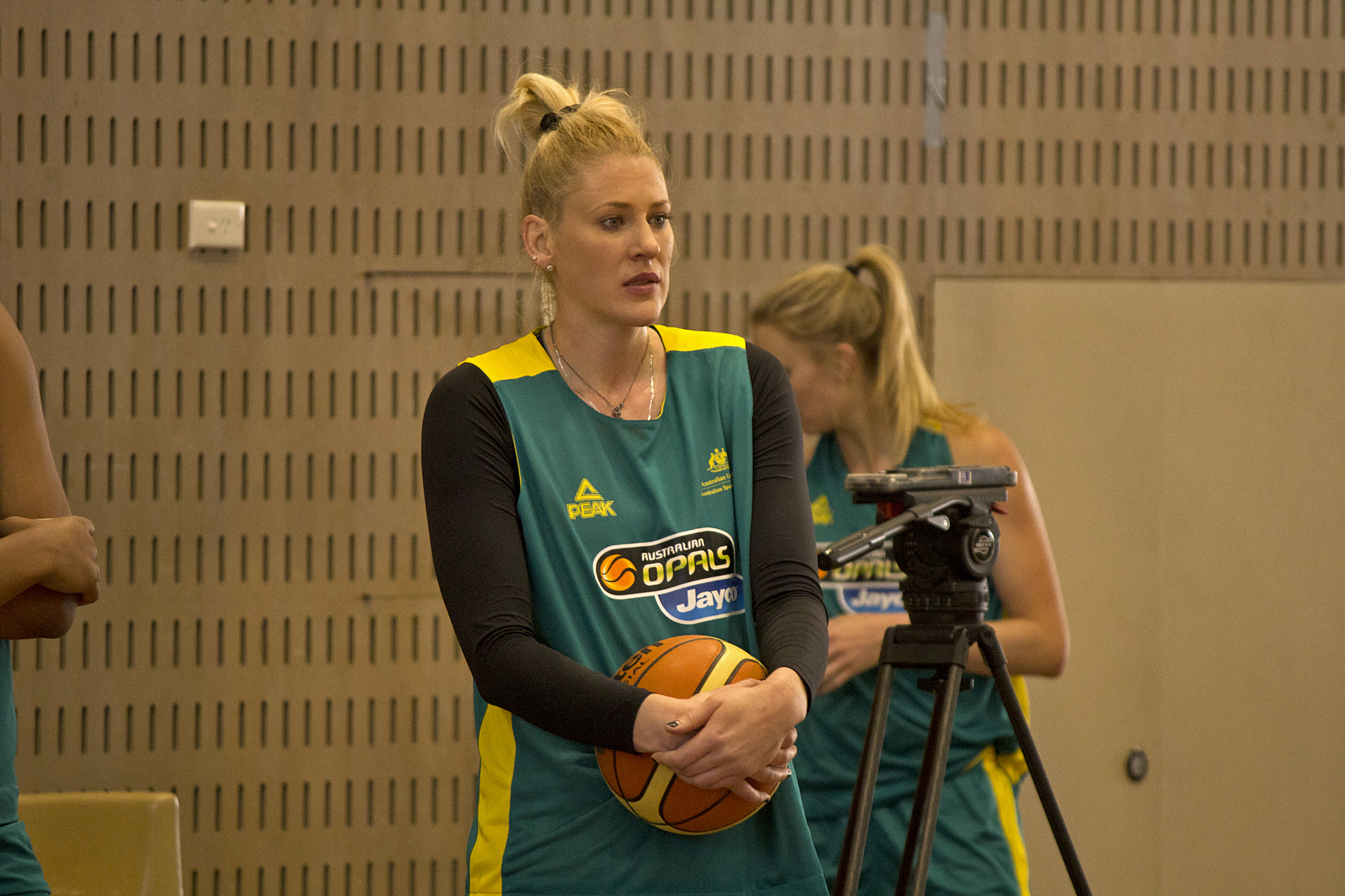 Lauren Jackson at day two of the Opals camp.